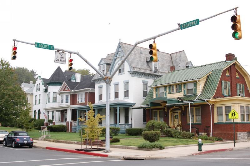 This picture shows a street corner on Broadway near downtown Hagerstown.As typical for rural areas in the United States the lights are rather trivially mounted here on the opposite of the crossroads and extra signals for pedestrian crosswalks are completely missing.